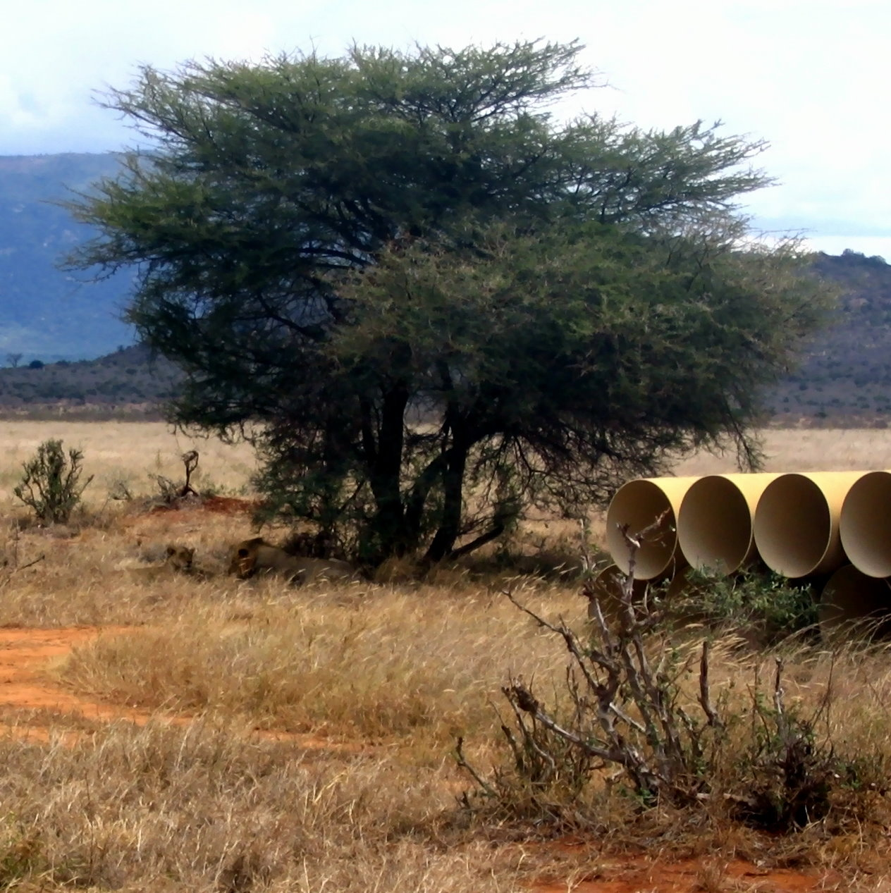 A male and female Panthera leo (Lion) resting under a tree in Tsavo East National Park, Kenya. They were photographed near a pond formed by a broken pipe and some replacement pipes can be seen. They are hard to see as they are partially camouflaged.